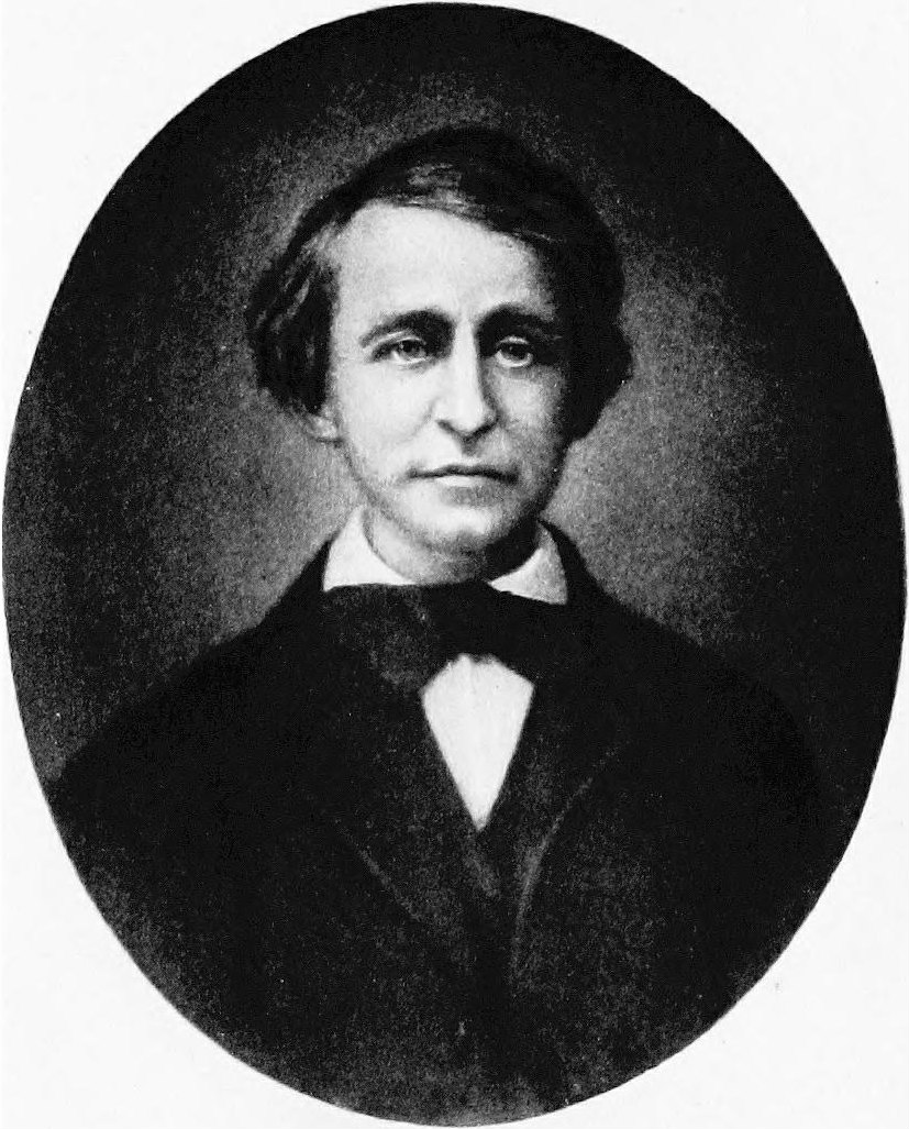 Henry David Thoreau as a young man. From a sketch supposed to have been made by his sister Sophia Thoreau, redrawn by Henry K. Hannah from a study of the Maxham daguerreotype and other portraits made in Thoreau's later life. This portrait was originally published in Mr. George Tolman's Concord: Some of the things to be seen there (H. L. Whitcomb, Concord, 1903), and is reproduced by the permission of Mr. Adams Tolman. It is considered by the best judges to be undoubtedly a good likeness of Thoreau in his twenties.